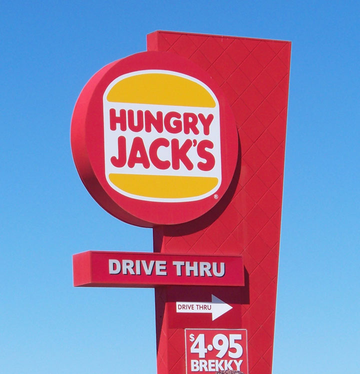 The Hungry Jacks sign at the front of the Bathurst, New South Wales store.